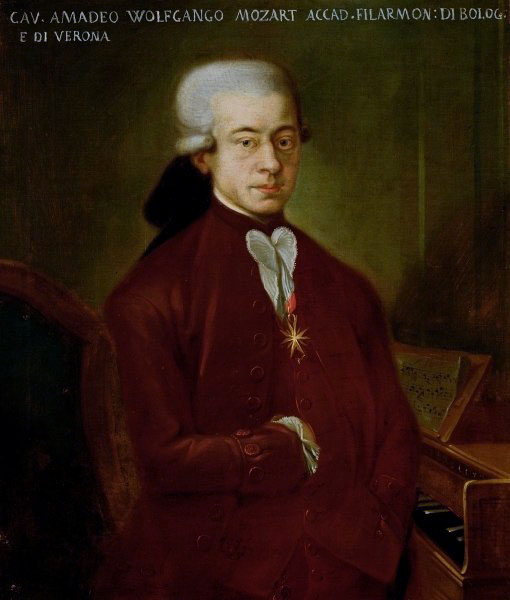 The so-called "Bologna Mozart" was copied 1777 in Salzburg (Austria) by a now unknown painter from a lost original for Padre Martini in Bologna (Italy), who had ordered it for his gallery of composers. Today it is displayed in the Museo internazionale e biblioteca della musica in Bologna in Italy. Leopold Mozart, W. A. Mozart’s father, wrote about this portrait: „It has little value as a piece of art, but as to the issue of resemblance, I can assure you that it is perfect.” (Original text: „Malerisch hat es wenig wert, aber was die Ähnlichkeit anbetrifft, so versichere ich Ihnen, daß es ihm ganz und gar ähnlich sieht.“) Reference: Letter of Leopold Mozart to Padre Martini in Bologna from Dec 22, 1777 (MBA II, pp. 204f, No. 396).